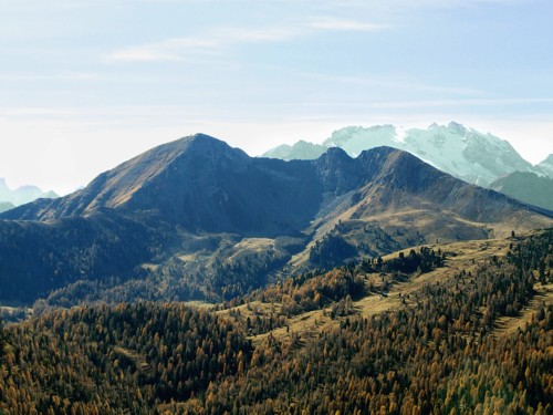 Col di Lana Picture taken and edited by user Idefix October 30, 2006